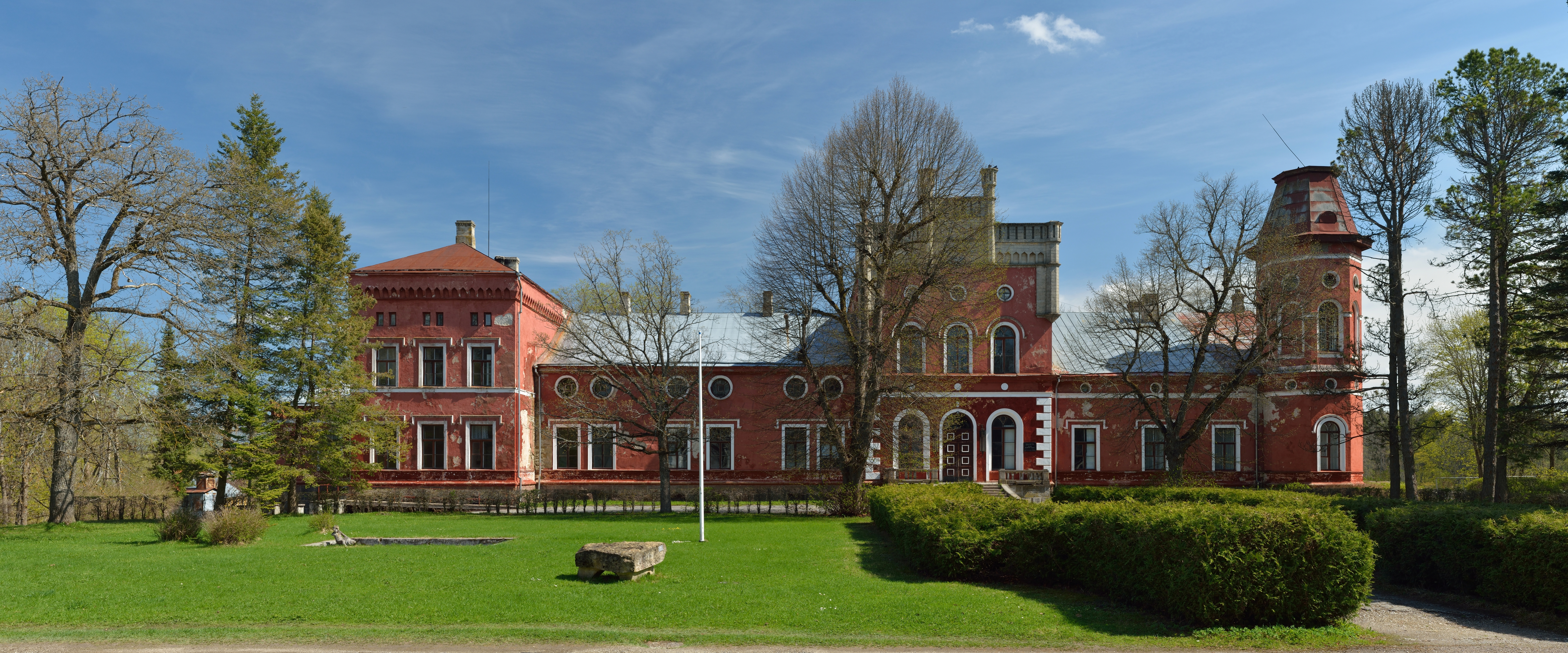 Porkuni manor main building